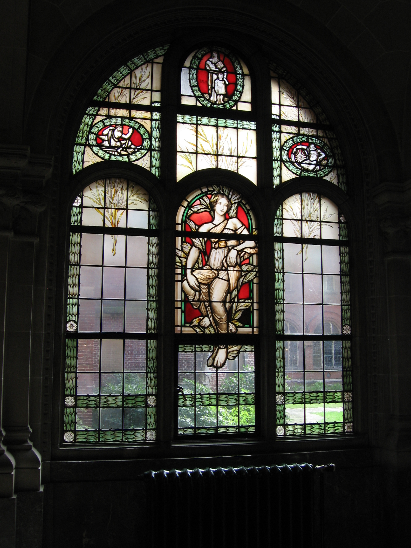 Stained glass, corridor Peace Palace